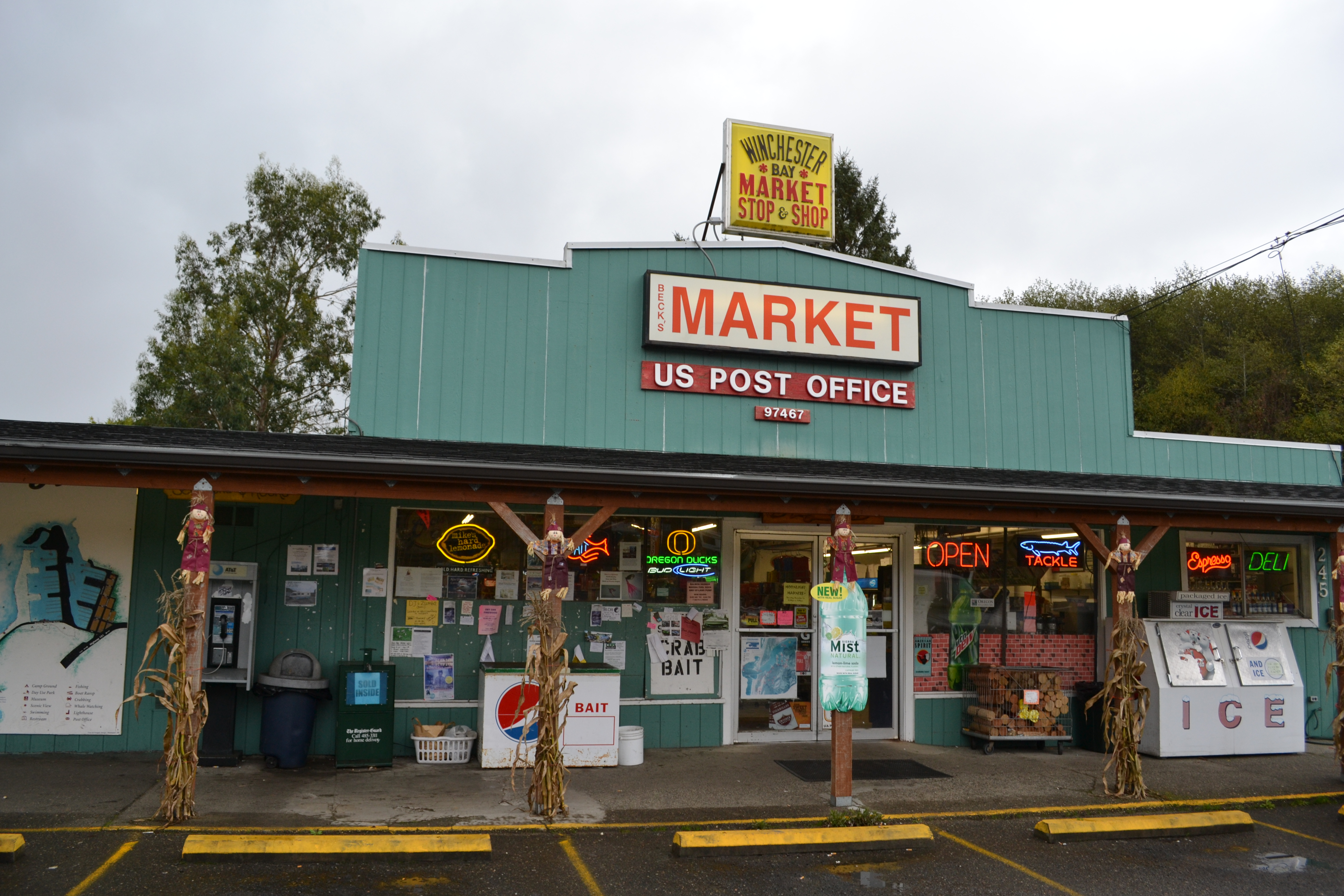 Winchester Bay Market (Winchester Bay, Oregon)